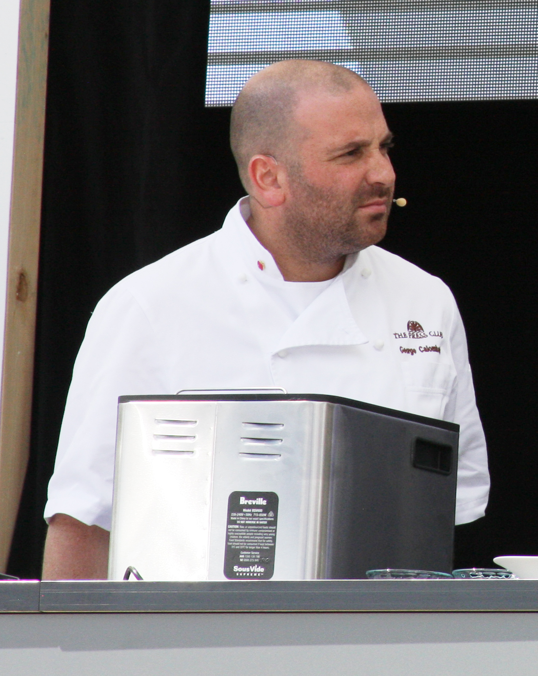 George Calombaris in Western Australia in November 2012